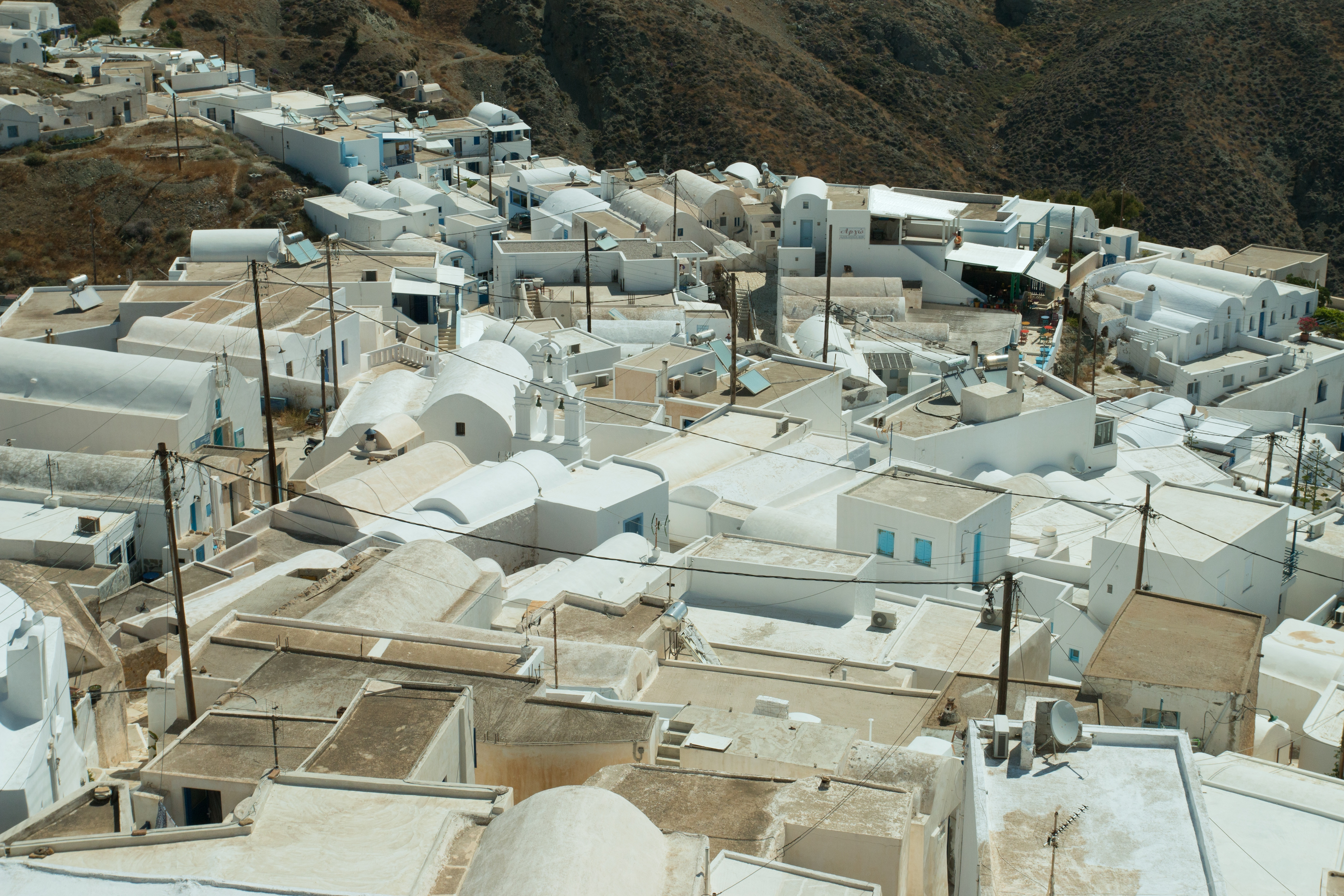 Chora of Anafi. Cyclades.